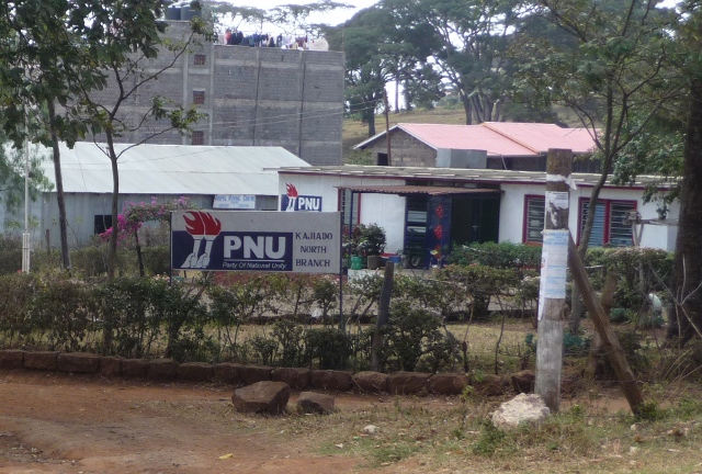 PNU office in Ngong